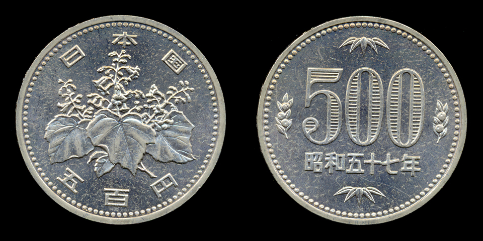 500yen-S57(current coin)